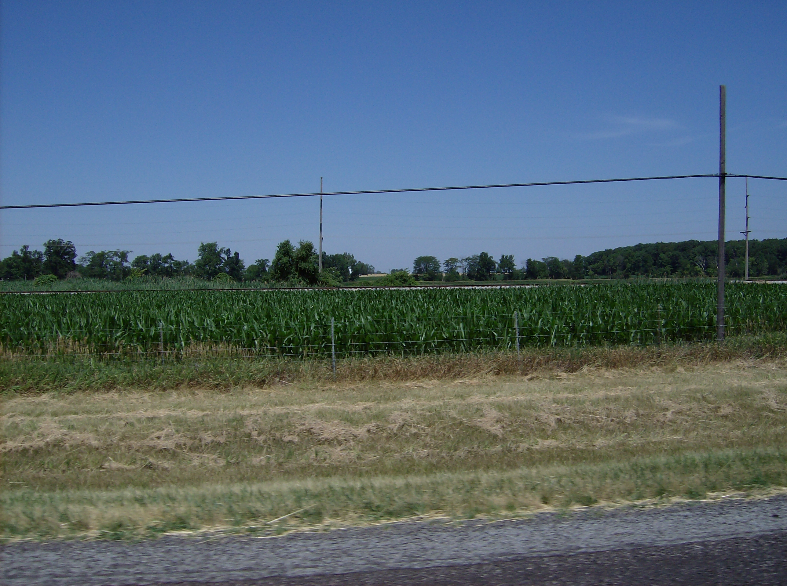 View of farmland in southwestern Richland Township, Allen County, Ohio, United States. Picture taken looking northwestward from Interstate 75.